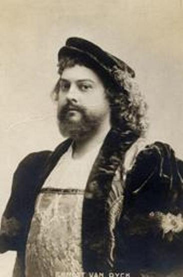 Photo of belgian opera singer Ernest Van Dyck (1861—1923)